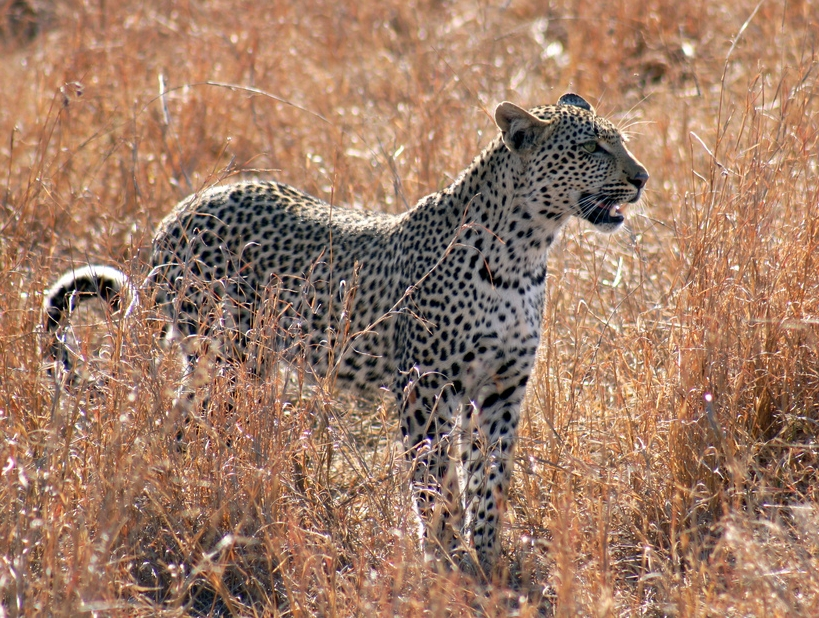 Leopard